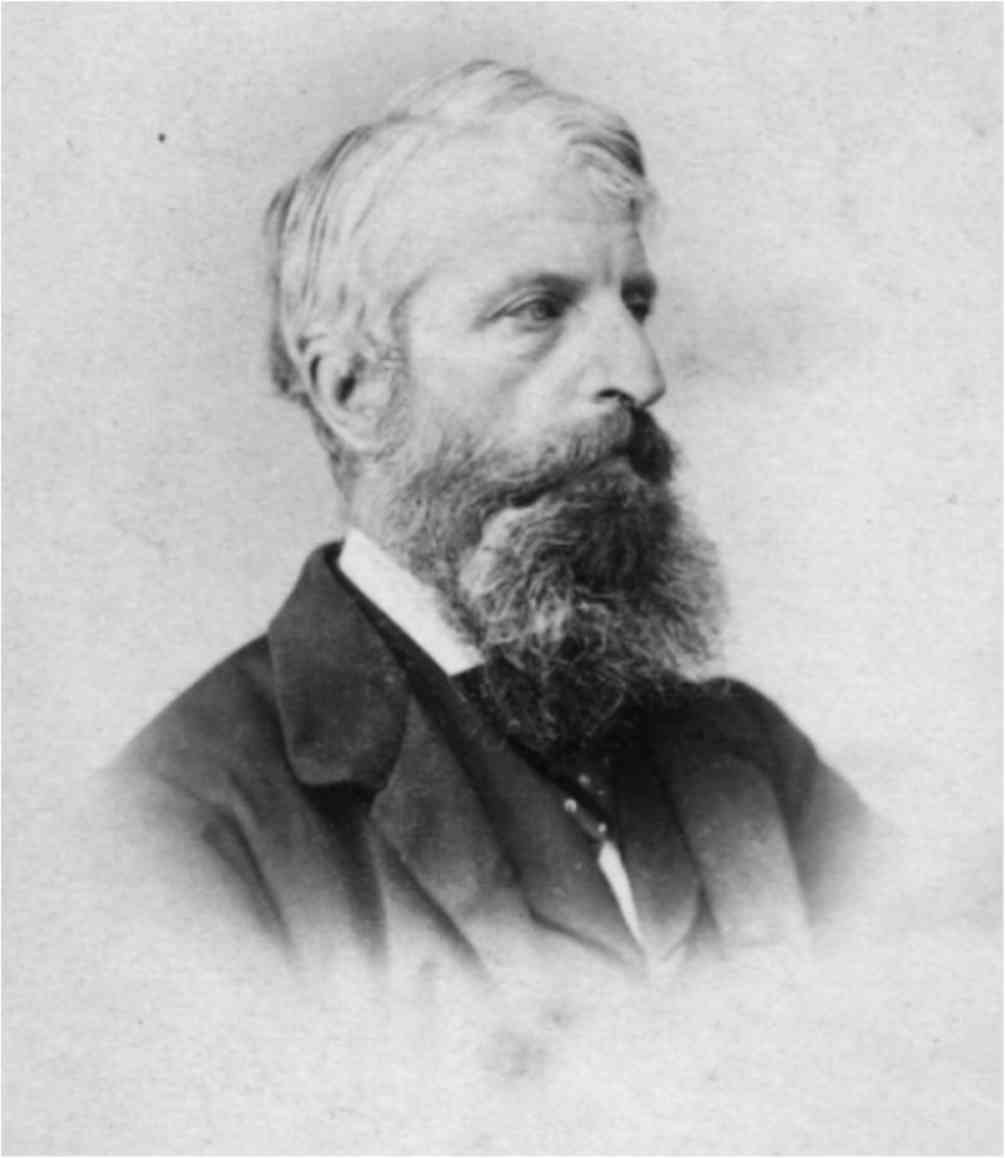 Scan from an original photograph of the artist Thomas Hartley Cromek